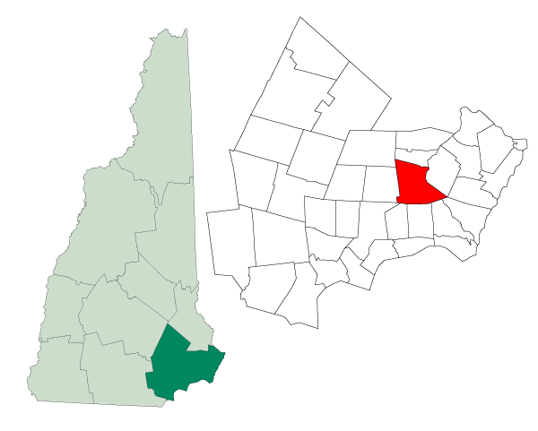 Map of a municipality in Rockingham County, New Hampshire